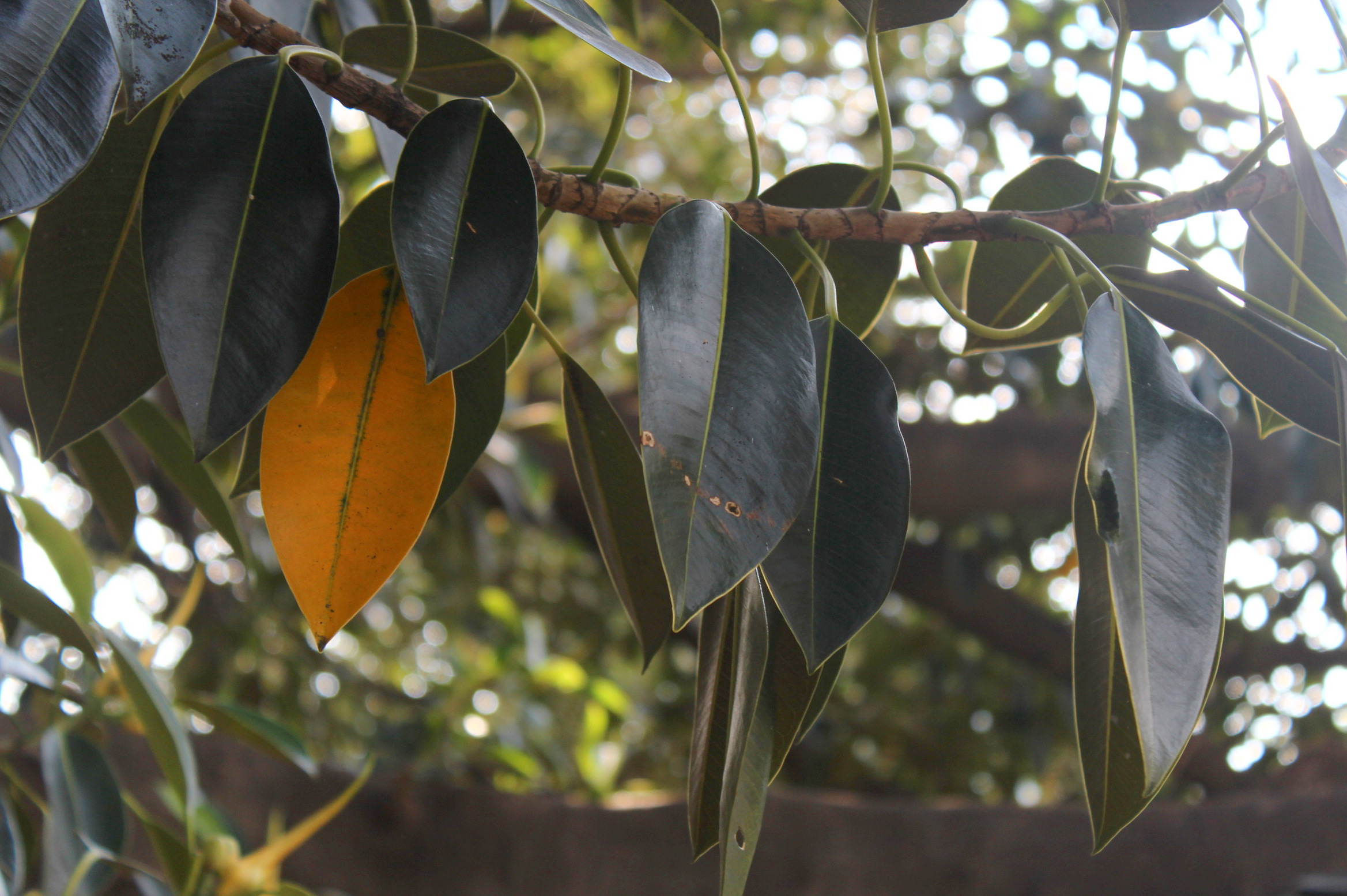 Leaves of the tree known as "Gomero de la Recoleta", in Buenos Aires, Argentina.